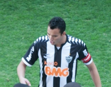 Brazilian footballer Réver in 2012.